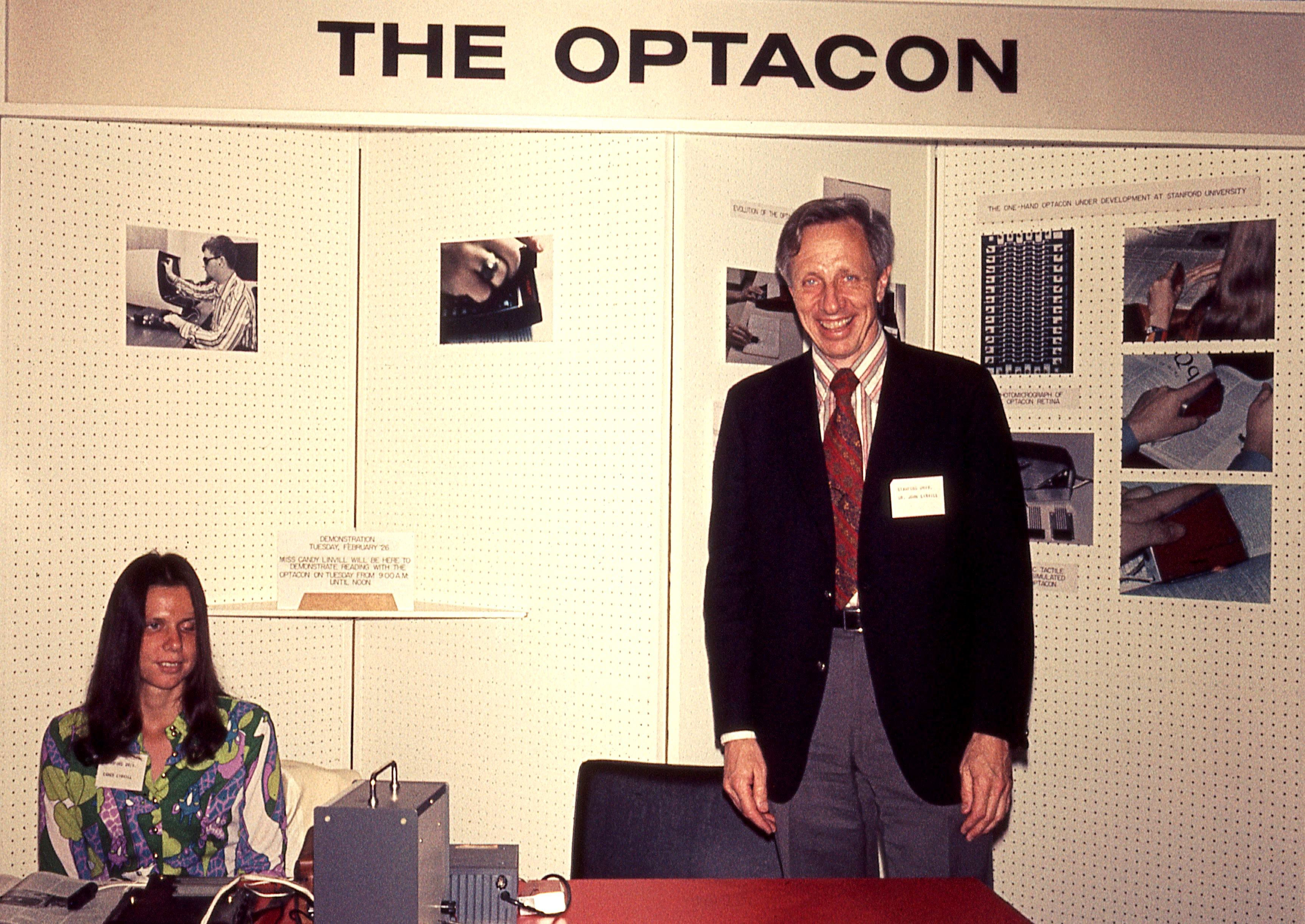 Dr. John Linvill, inventor of the Optacon reading device for the blind, demonstrating the Optacon with his blind daughter, Candy, in April 1974. Pictured above Miss Linvill is Loren Schoff reading with the Optacon. Pictured behind Dr. Linvill is the One-Hand Optacon, then under development at Stanford University by Dr. John Linvill, Dr. Roger Melen, and Dr. Harry Garland. Dr. Linvill was Chairman of the Department of Electrical Engineering at Stanford University.